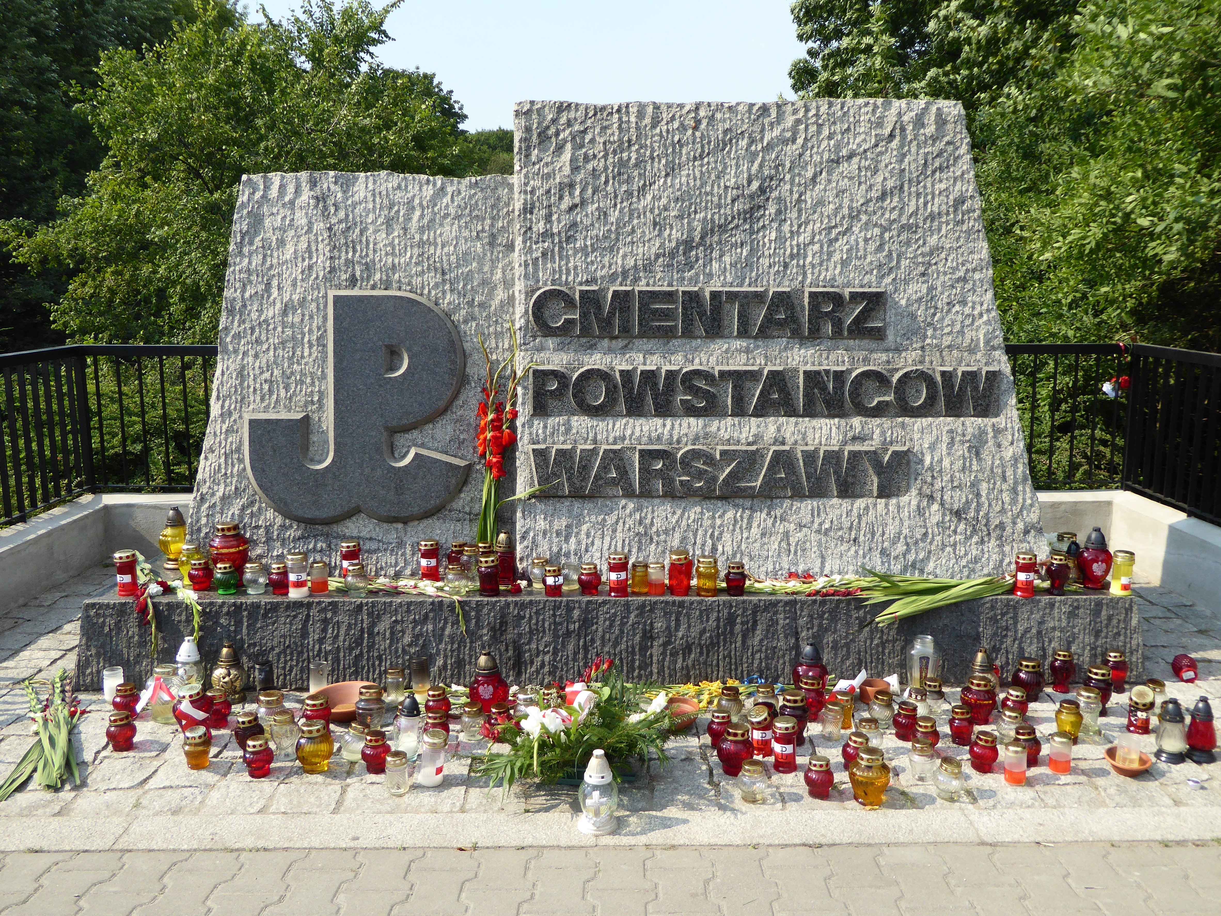 Warsaw Insurgents Cemetery (Cmentarz Powstańców Warszawy) This is the largest burial site of victims of the Warsaw Uprising, which broke out on 1st August 1944 and lasted until 2nd October 1944. Approximately 104,000 people (mainly persons unknown) are buried in the cemetery, mostly in collective graves.